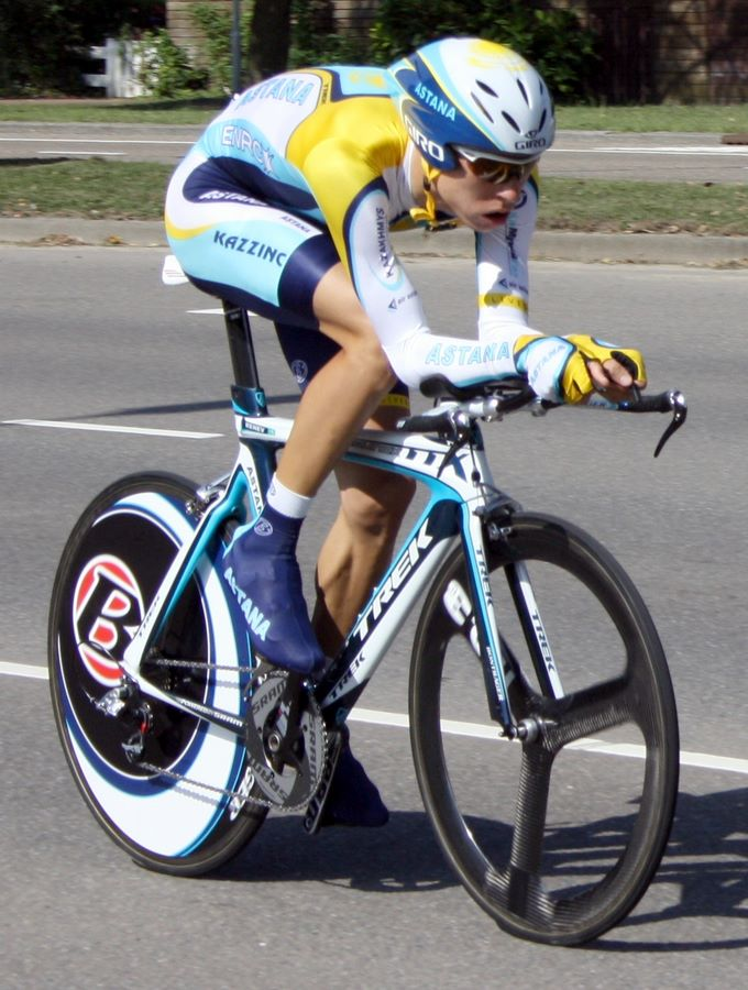 Sergey Renev at the 2009 Eneco Tour prologue